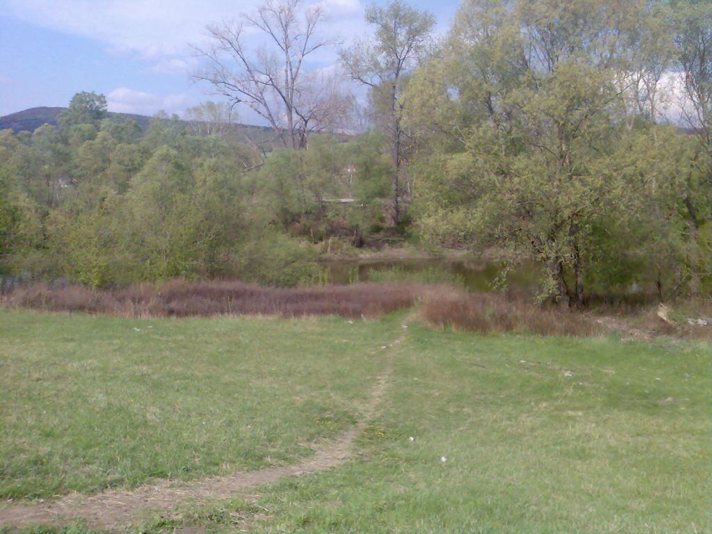 Place of former Ipoly bridge near Ipolydamásd